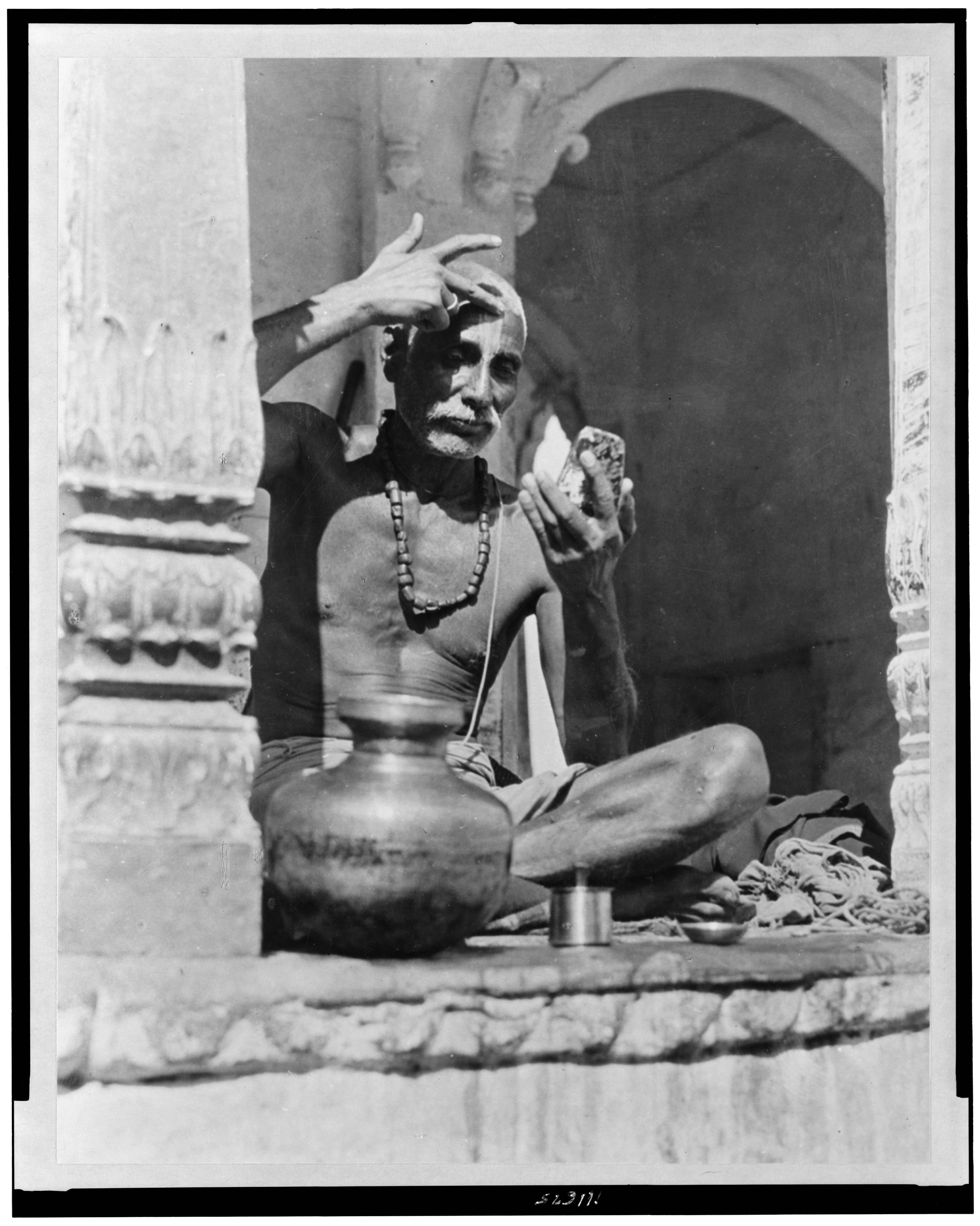 Title: Brahman priest, in India, painting his forehead with the red and white marks of his sect and caste Physical description: 1 photographic print. Notes: Forms part of: Frank and Frances Carpenter Collection (Library of Congress).; Title from caption card.